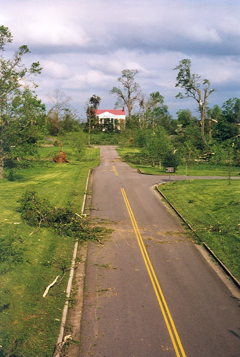 Photo of damage from the w:1998 Nashville tornado outbreak of the Tulip Grove Mansion, part of the Hermitage.